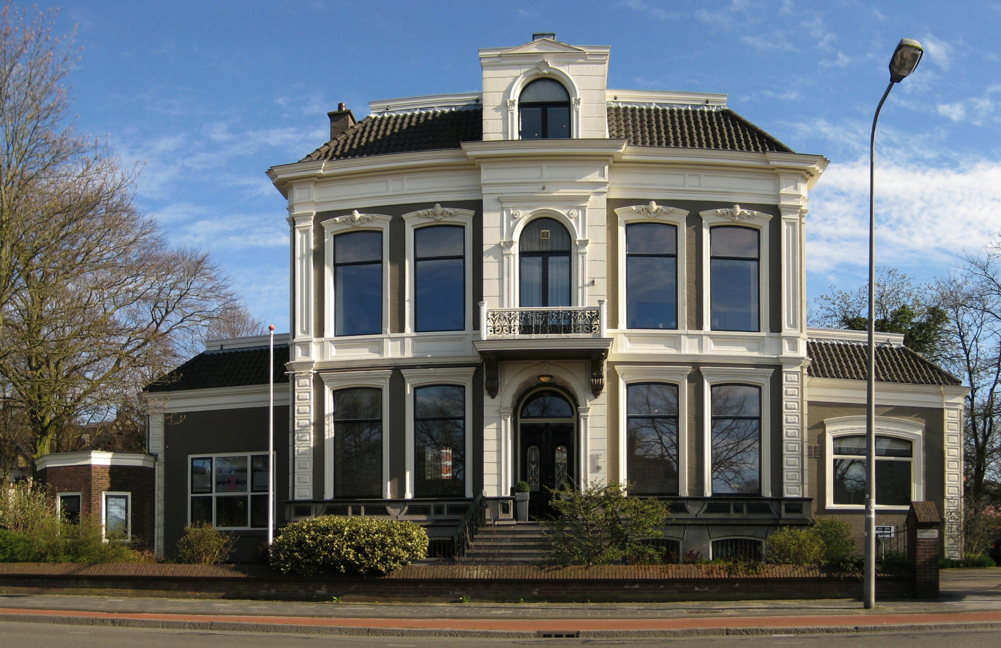 Villa (1880-1882) in the Dutch city of Groningen.